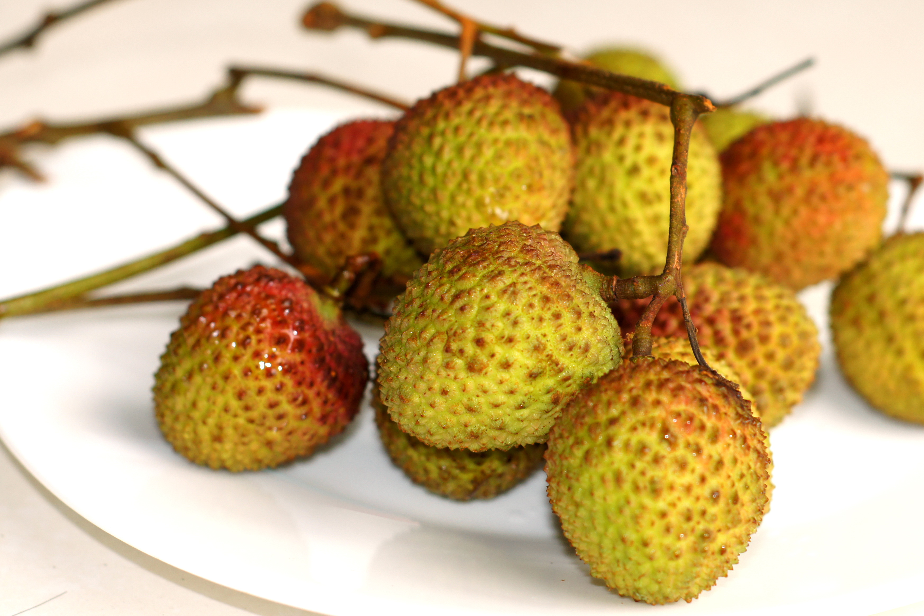 Yu Her Pao Lychee from Kao-Ping district, Taiwan.